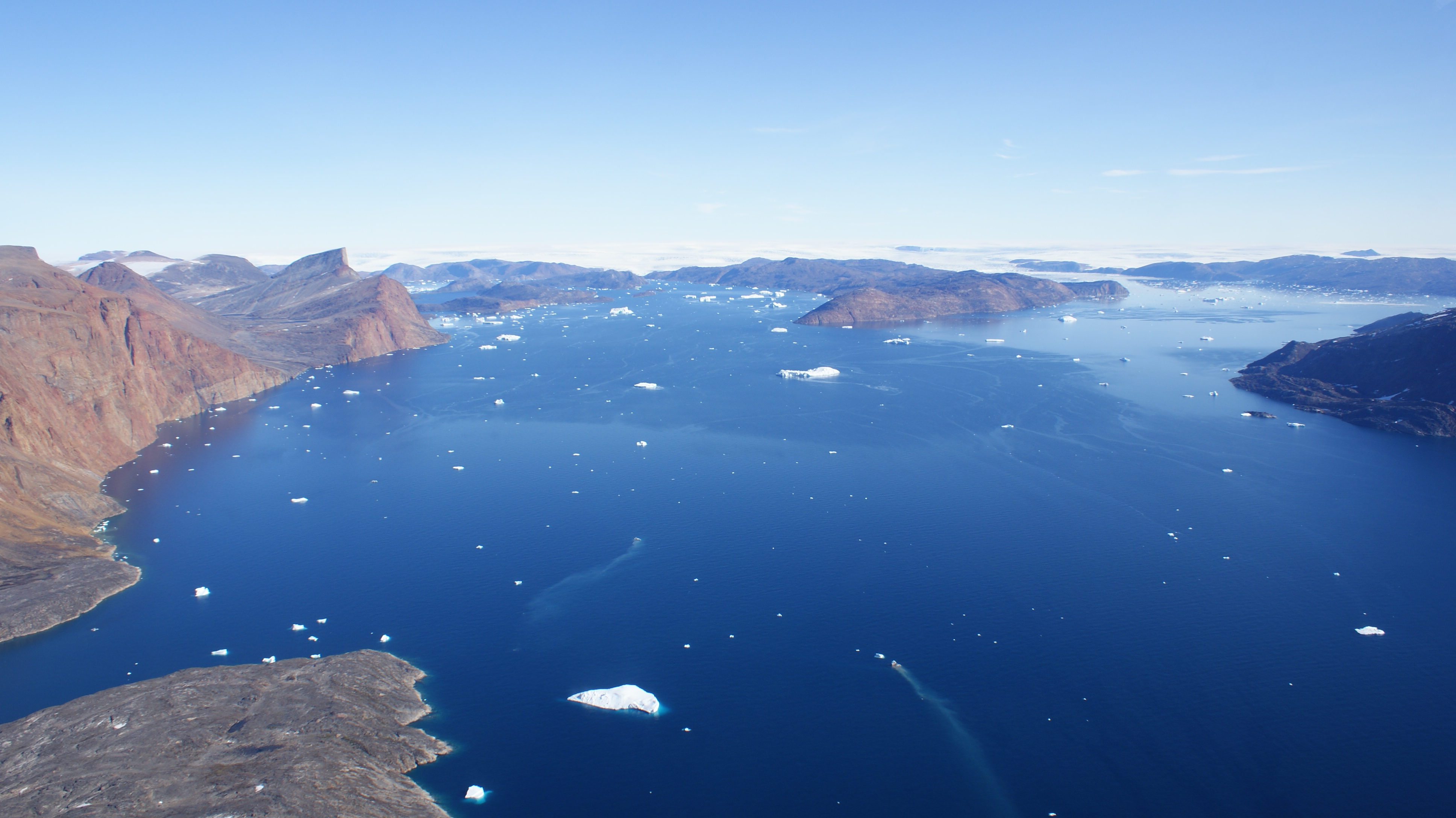 Aerial view of northern Inussulik Bay, Upernavik Archipelago, Greenland. Photographed from the Air Greenland Bell 212 during the Kullorsuaq-Nuussuaq flight. Left to right: Kiatassuaq Island (with Tasersuaq Lake at the far end), Ikerasaa Strait, Saninngassorsuaq Peninsula, Inussullissuaq Island.